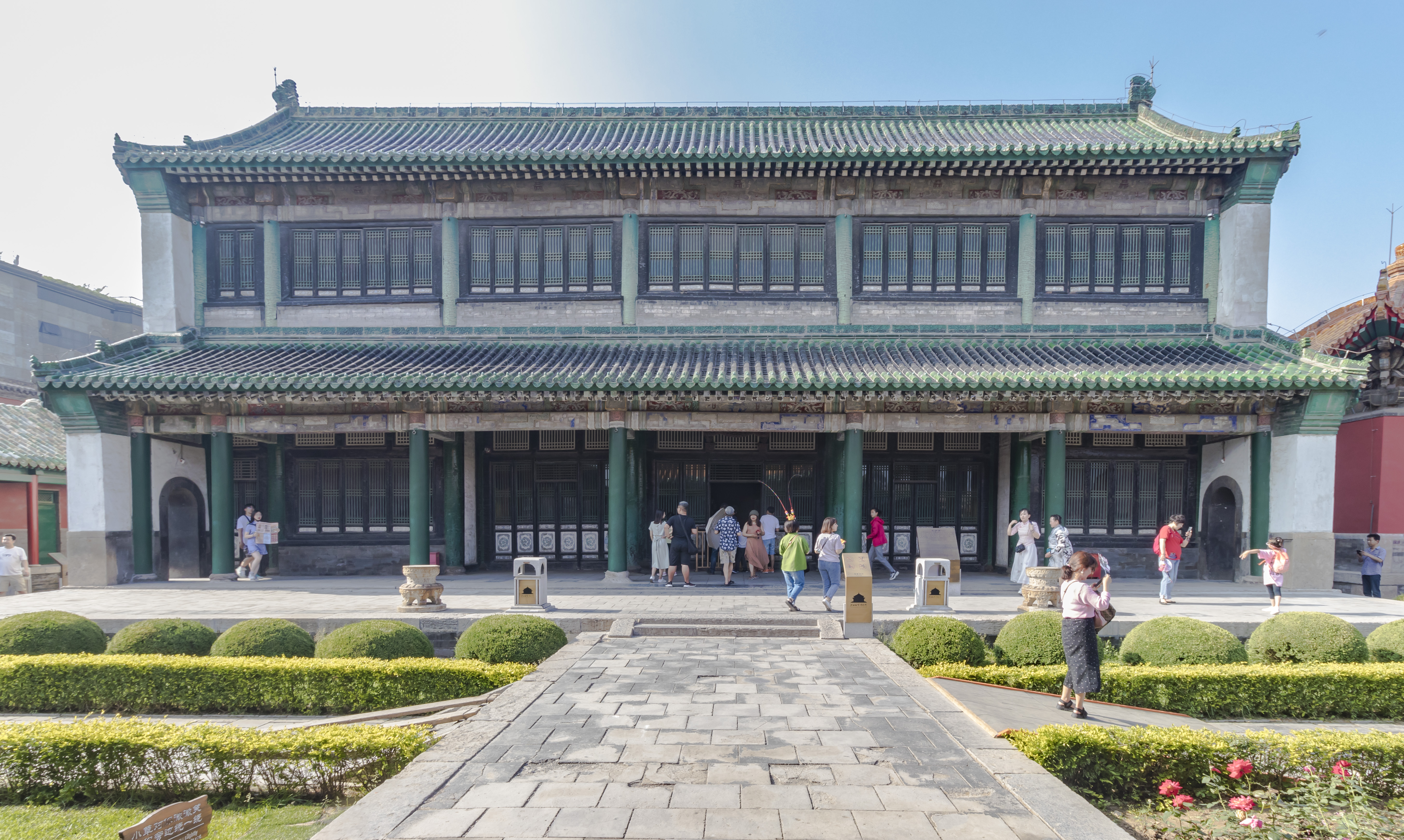 Mukden Palace, Shenhe District, Shenyang